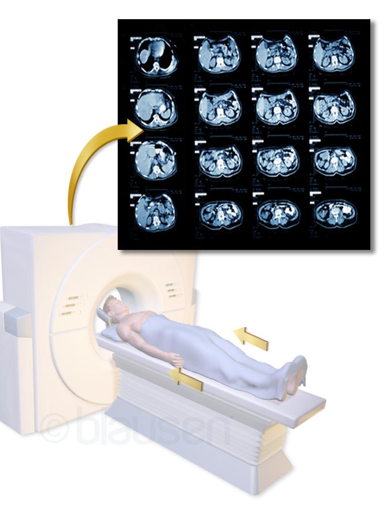 CAT Scan. See a full animation of this medical topic.